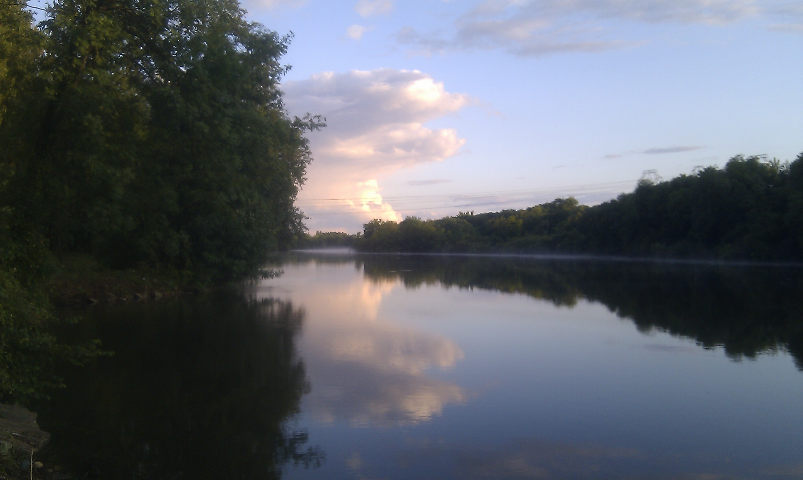 View of a pool in Vert-le-Petit